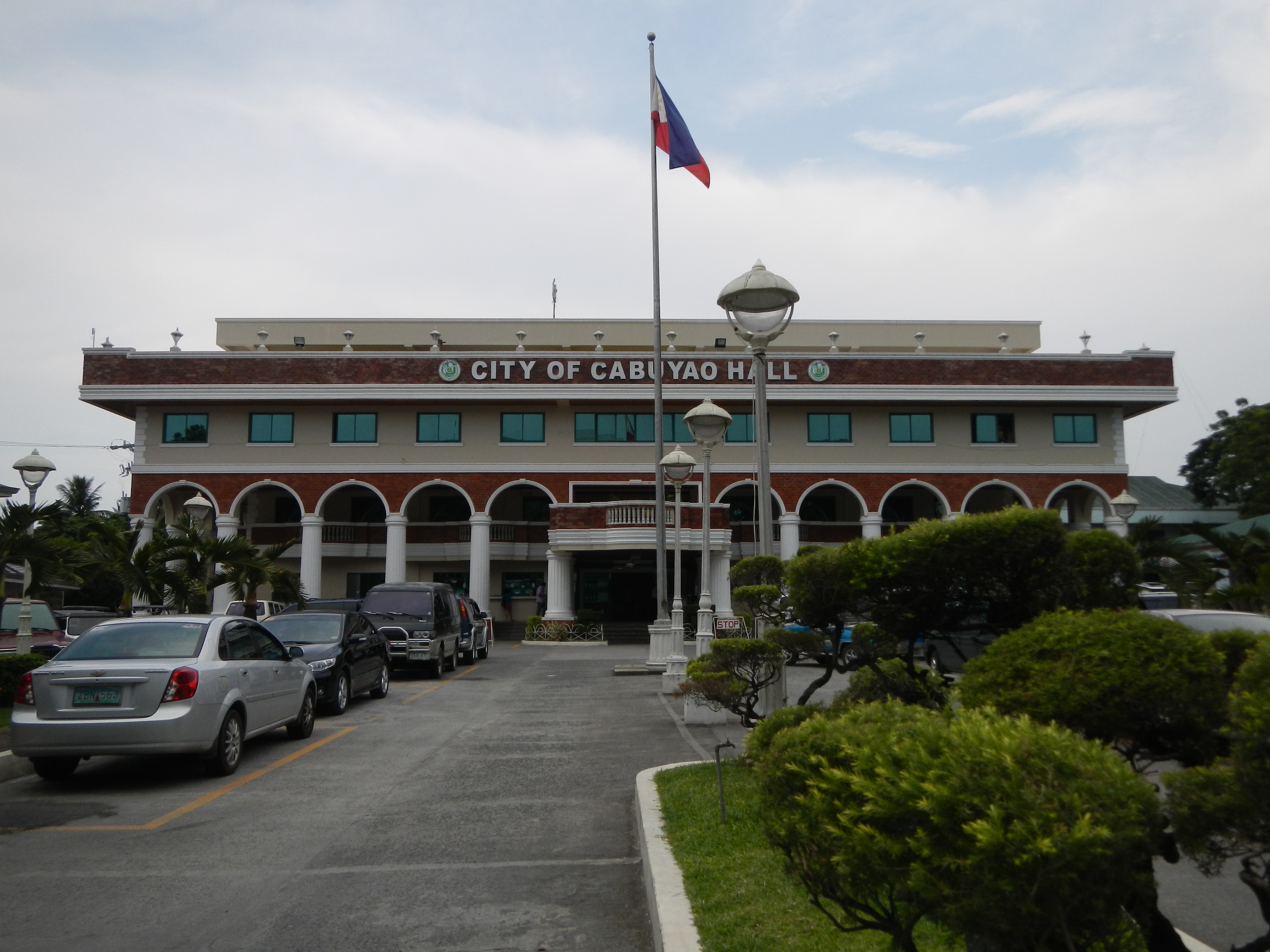 UploadWizard photos --- (general description) of (landmarks, heritage, culture, comprehensive, photography) of -- the -- Cabuyao City Hall[1] located in Brgy. Sala, Cabuyao [2] Cabuyao City, Laguna Coordinates:14°16'17"N 121°7'27"E homes the Cabuyao City Hall, Cabuyao City Police Station, Cabuyao City Jail and Cabuyao Fire Station. --- Cabuyao[3] (City of Cabuyao is a first class city in the western portion of Laguna, Philippines - 2010 Census, population of 248,436 inhabitants, area: 43.3 km²Website Cabuyao, Laguna, is newest city President Benigno Aquino, on May 16, 2012, signed the executive order directing the conversion of Cabuyao to a component city under Republic Act No. 10163 -[4] Coordinates: 14°15'0"N 121°6'20"E).